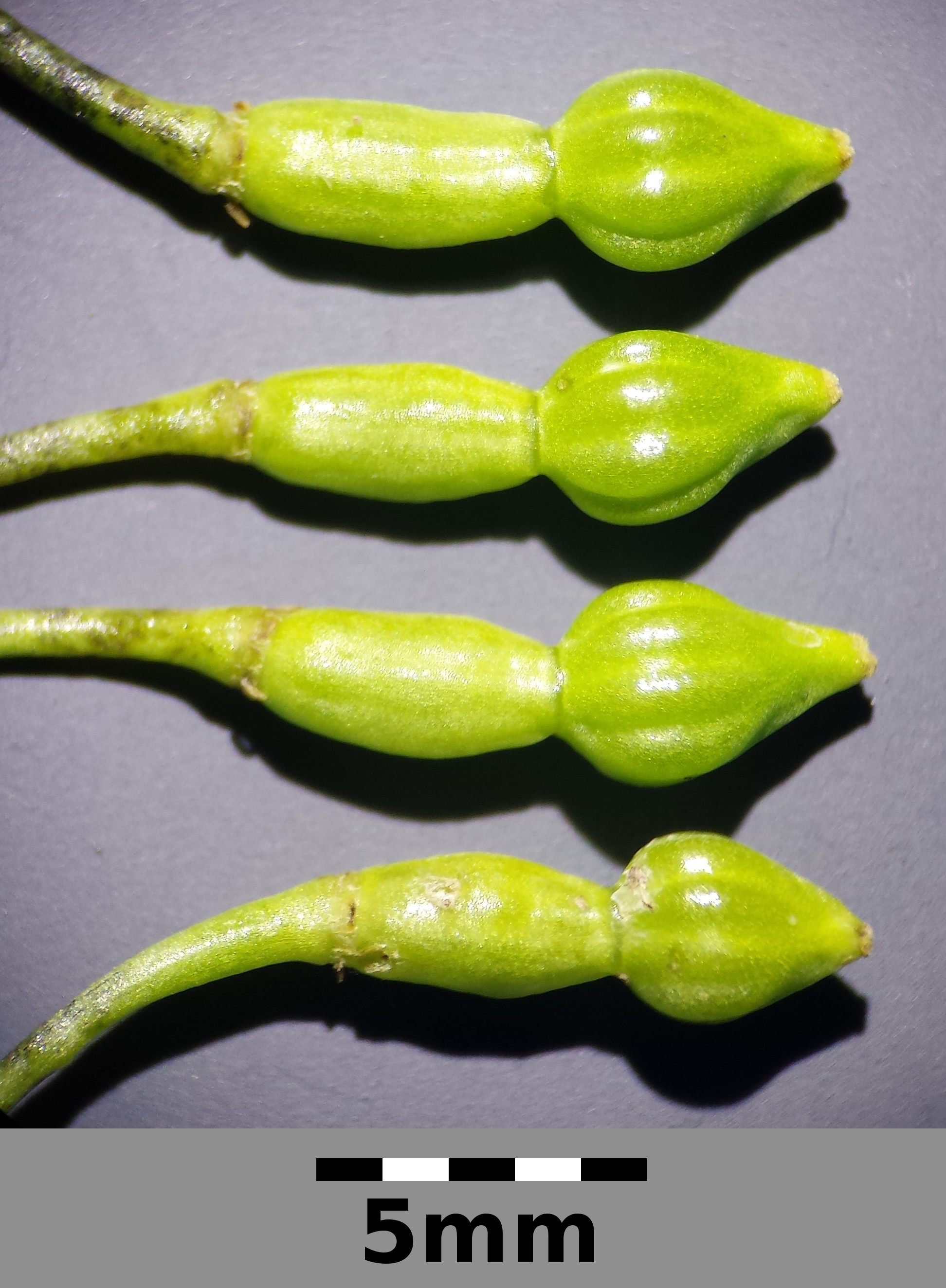 Fruits Taxon: Rapistrum perenne (sensu Fischer et al. EfÖLS 2008 ISBN 978-3-85474-187-9) Location: Gebmannsberg, district Korneuburg, Lower Austria - ca. 340 m a.s.l. Habitat: semi dry grassland over Loess